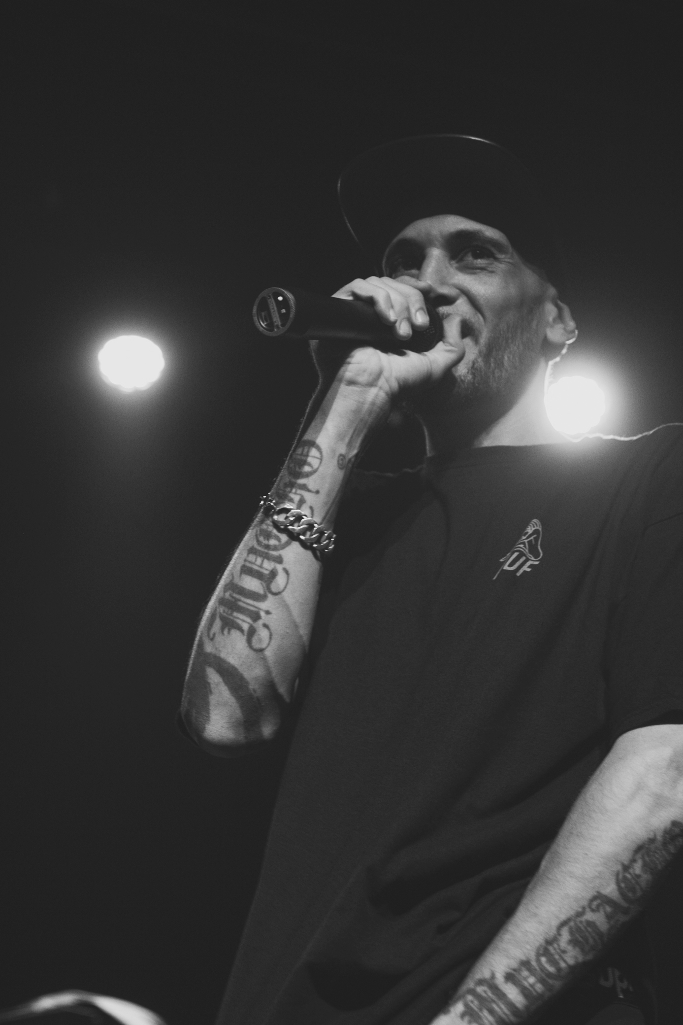 Concierto de 7 Notas 7 Colores en Dkluba. 7 Notas 7 Colores taldearen kontzertua Dkluban. Argazkiak/fotógrafa: Lorena Otero Perales. 2017/03/04